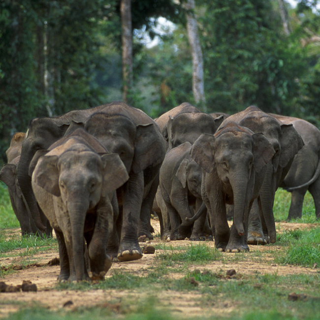 Borneo elephants (Elephas maximus borneensis)